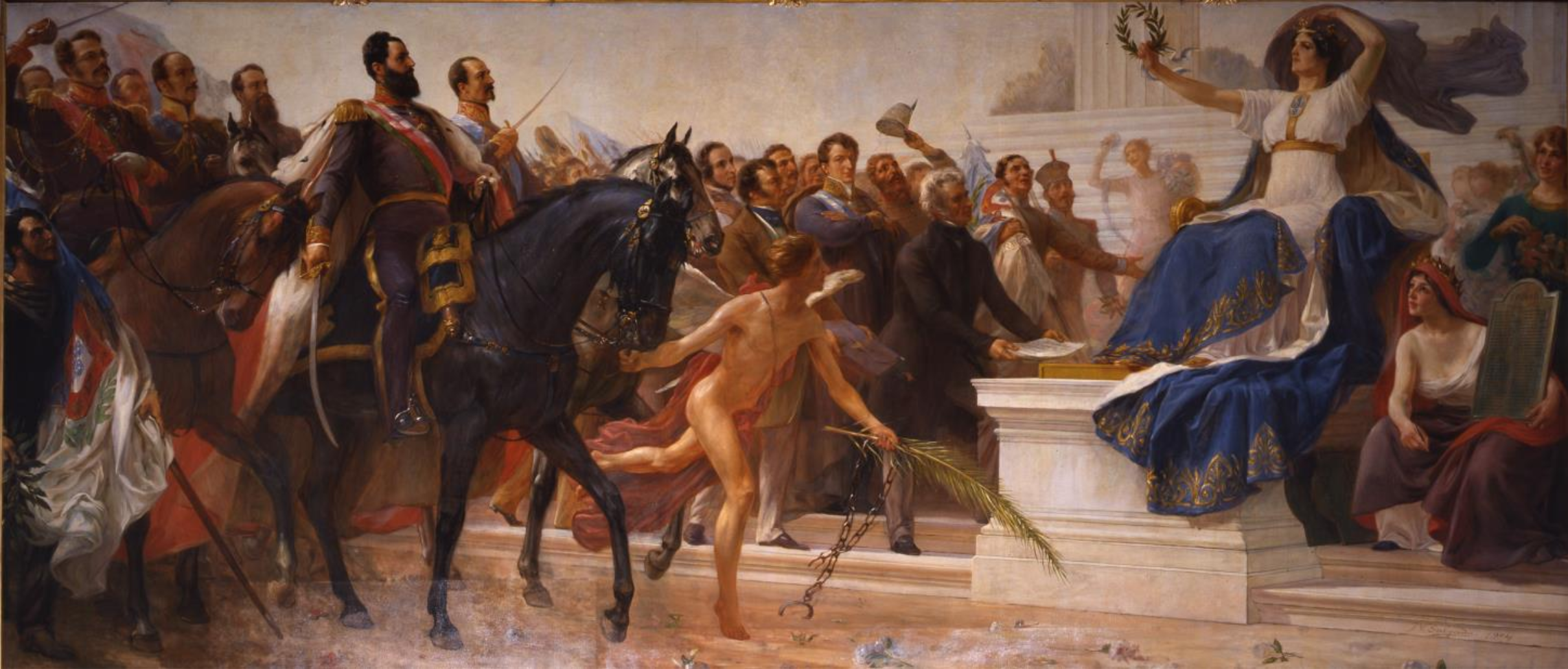 The Motherland Crowns Her Heroes (1904), by Veloso Salgado. An allegory of the victorious Liberal faction of the Portuguese Civil War.